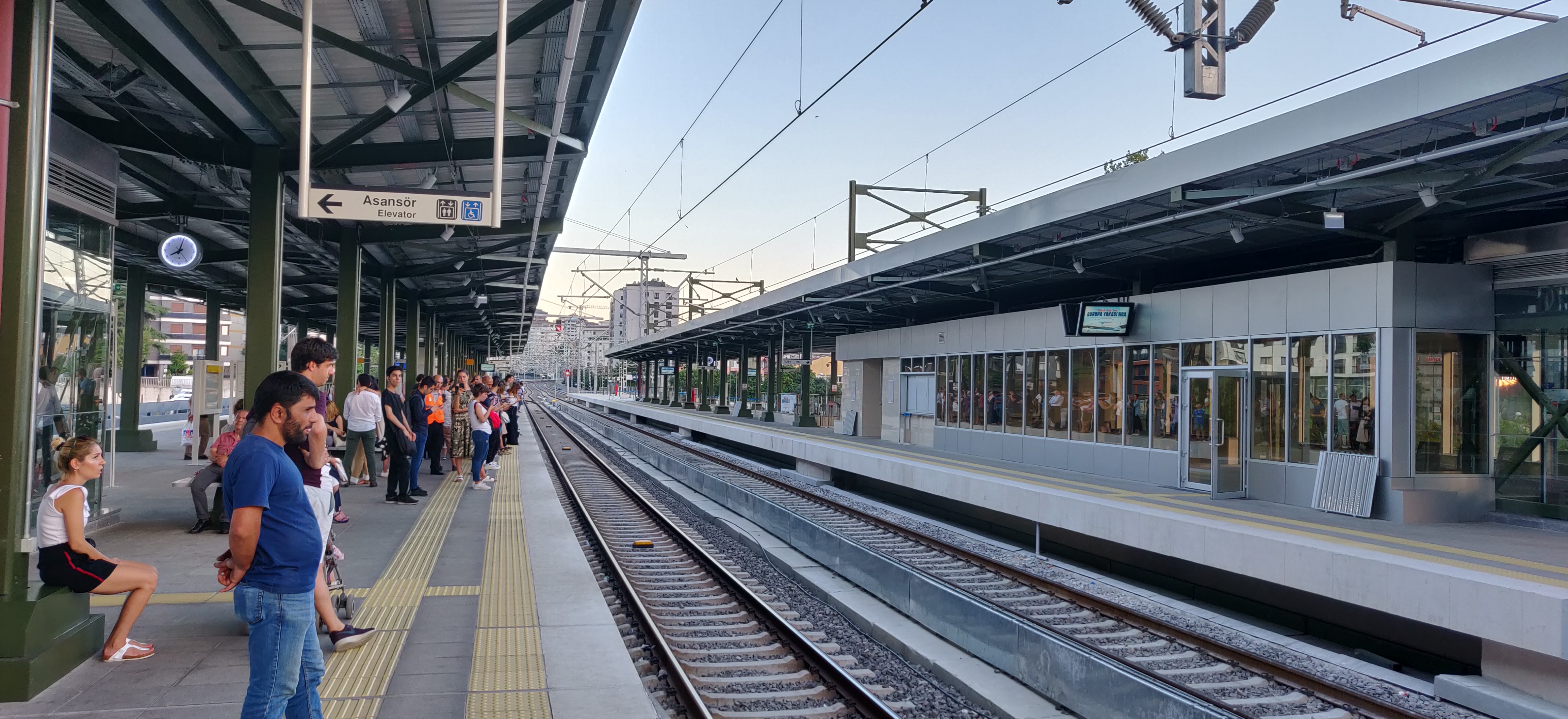 Standing on the Marmaray platform of Sögütlücesme, looking east.